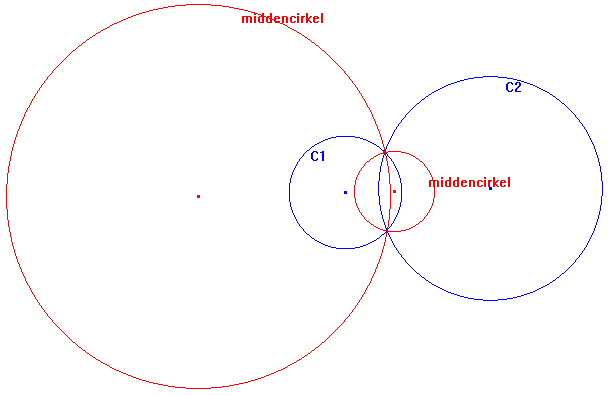 Two midcircles of two given circles